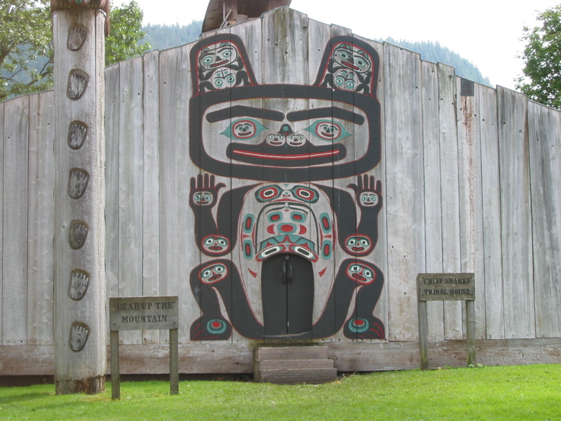 Chief Kashakes Tribal House in Wrangell, Alaska. As recongized by the Bear House of the HeHL Kwan.